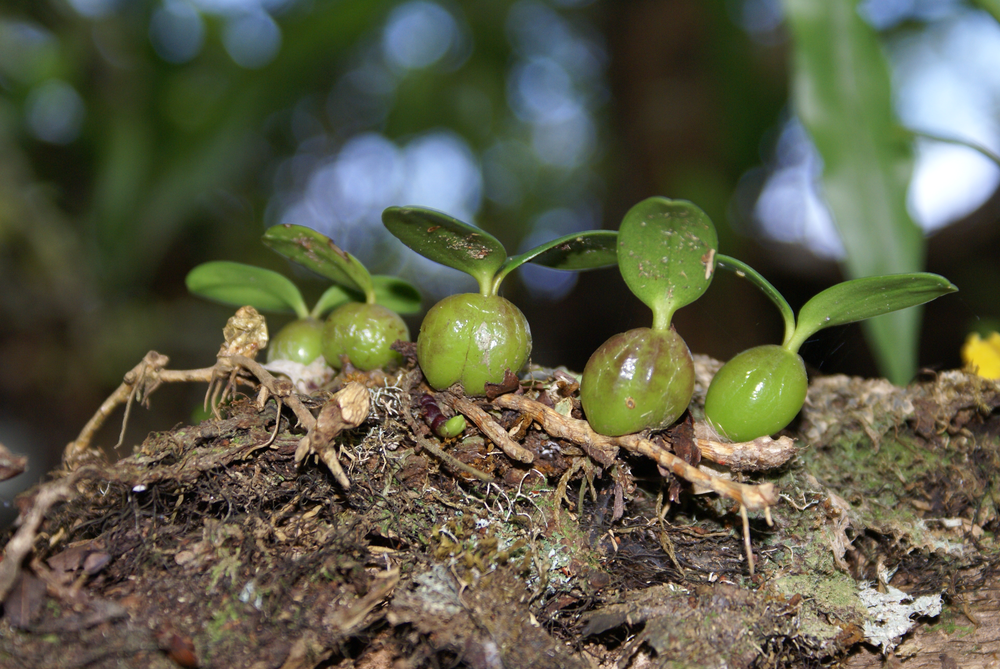 Bulbophyllum nutans an epiphytic orchid endemic to Madagascar and Mascarene Islands, here photographied on Réunion island in the forest of Notre-Dame de la Paix